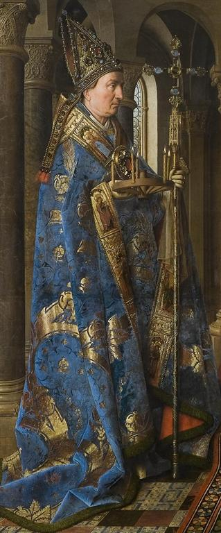 The Virgin and Child with Canon van der Paele, a large oil-on-oak panel painting completed around 1434–36 by the Early Netherlandish artist Jan van Eyck. It was commissioned by Joris van der Paele, a wealthy clergyman from Bruges who was at the time gravely ill, and intended the work to be both the front piece for an altar and serve as his epitaph.